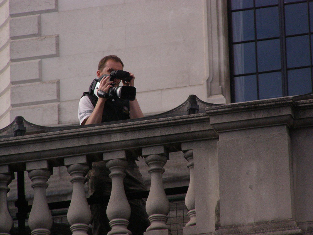 A police officer filming the G20 Meltdown protest in London on 1 April 2009